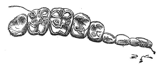 Microchoerus erinaceus. The Right Upper Dentation, from the platal aspect.